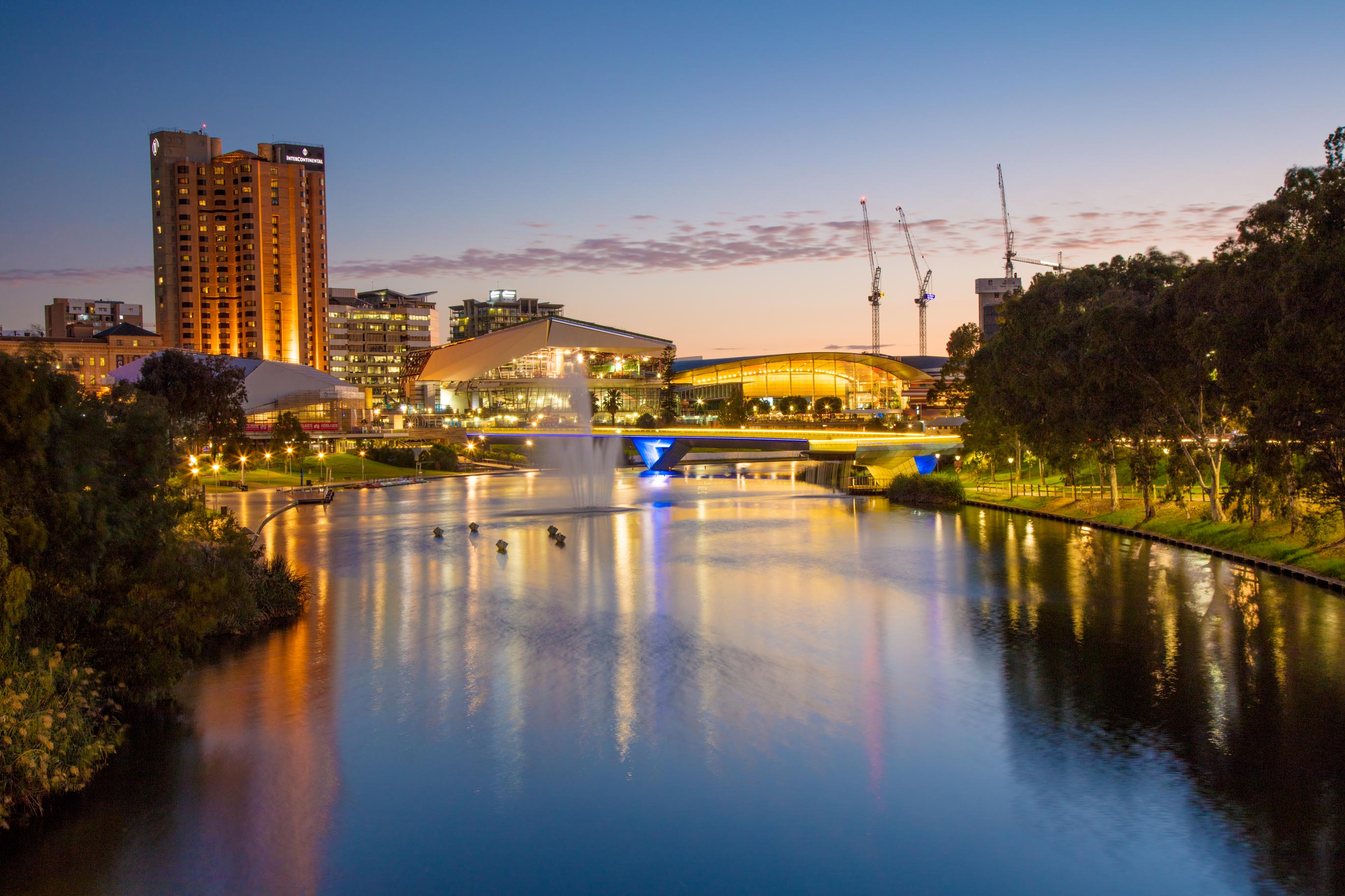 You are welcome to use this photo . please ask before you use. No part of this picture may be reproduced or transmitted in any from or by any means without prior permission. Please license before you use. Please, let me know how you feel about my work and if there are any scope to improve this picture. Facebook page l Blogspot l wordpress | instagram | 500px ========================================== All rights reserved © by Travellers travel photobook